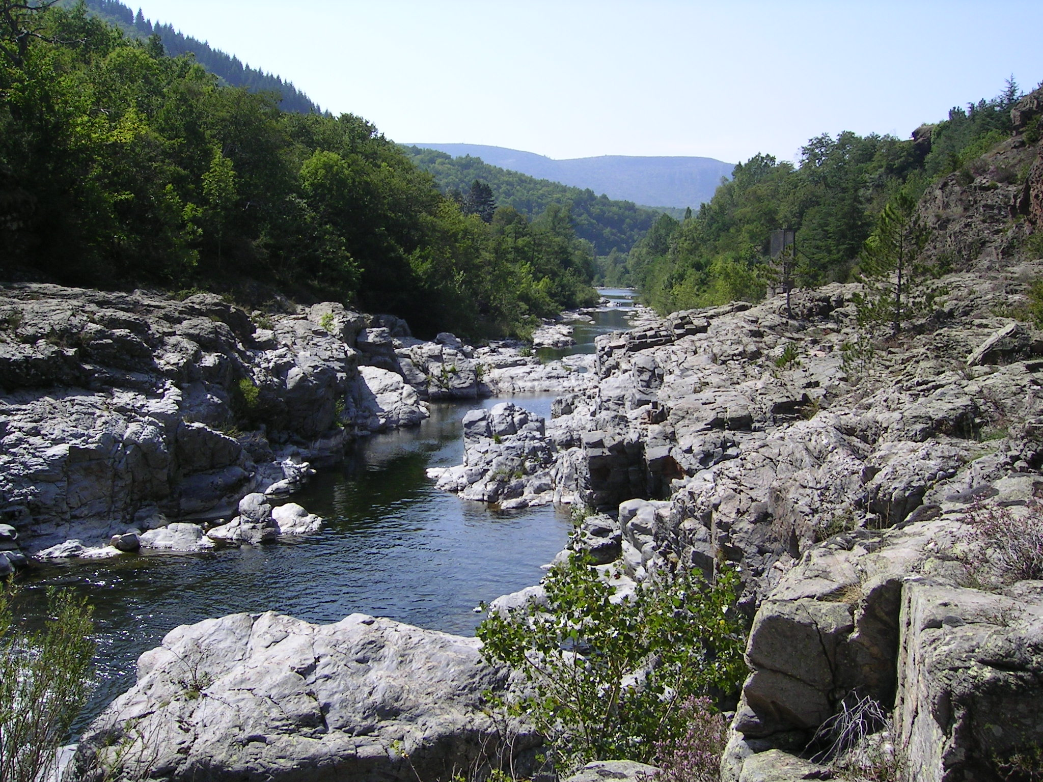 The Tarn River, France. Photo taken near the village Cocurès.